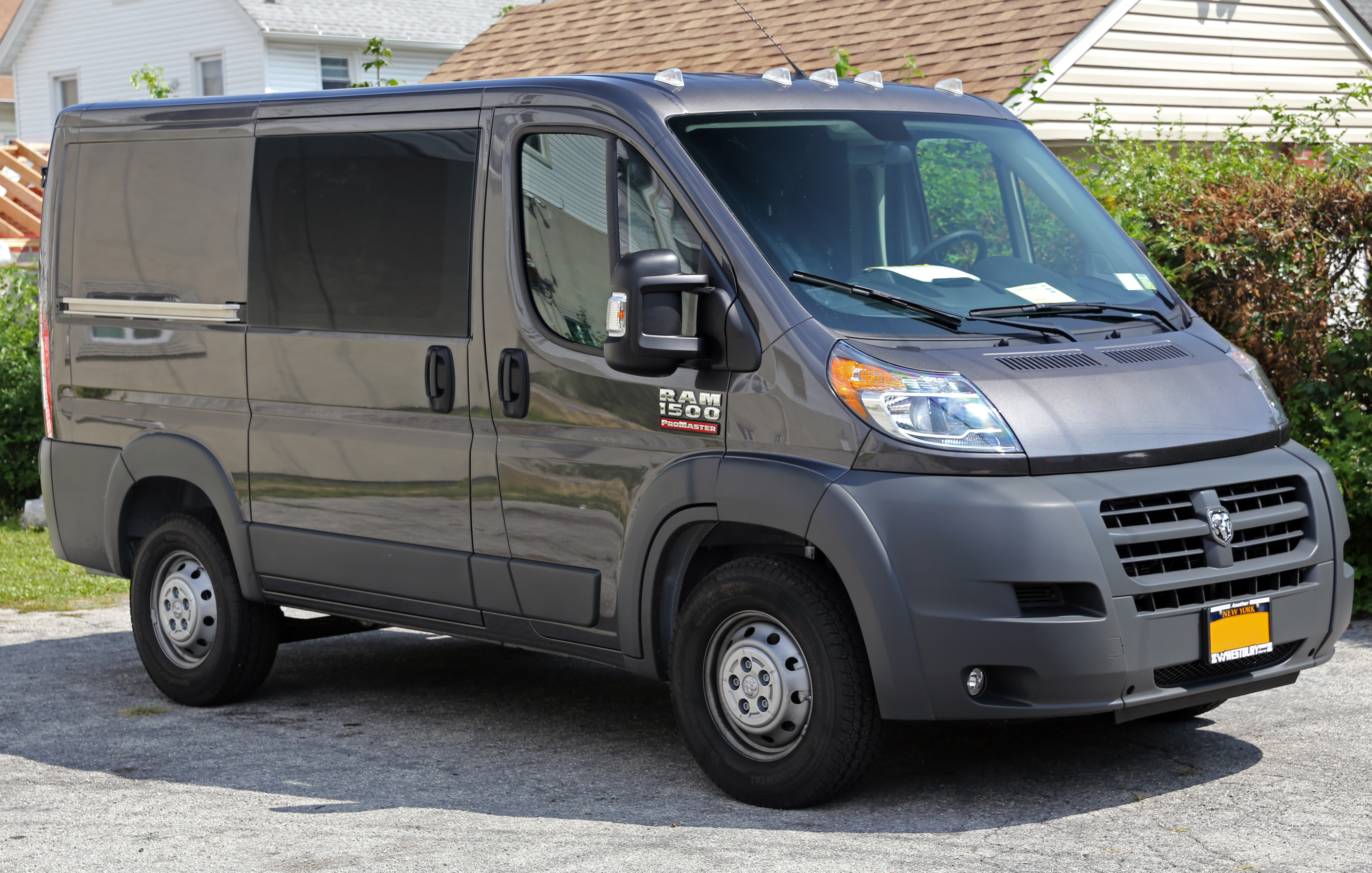 A 2014 Ram 1500 ProMaster Tradesman (standard roof) on the 118 in (3,000 mm) wheelbase. Built in Saltillo, Mexico, and with the petrol 3.6 litre Pentastar V6 engine.